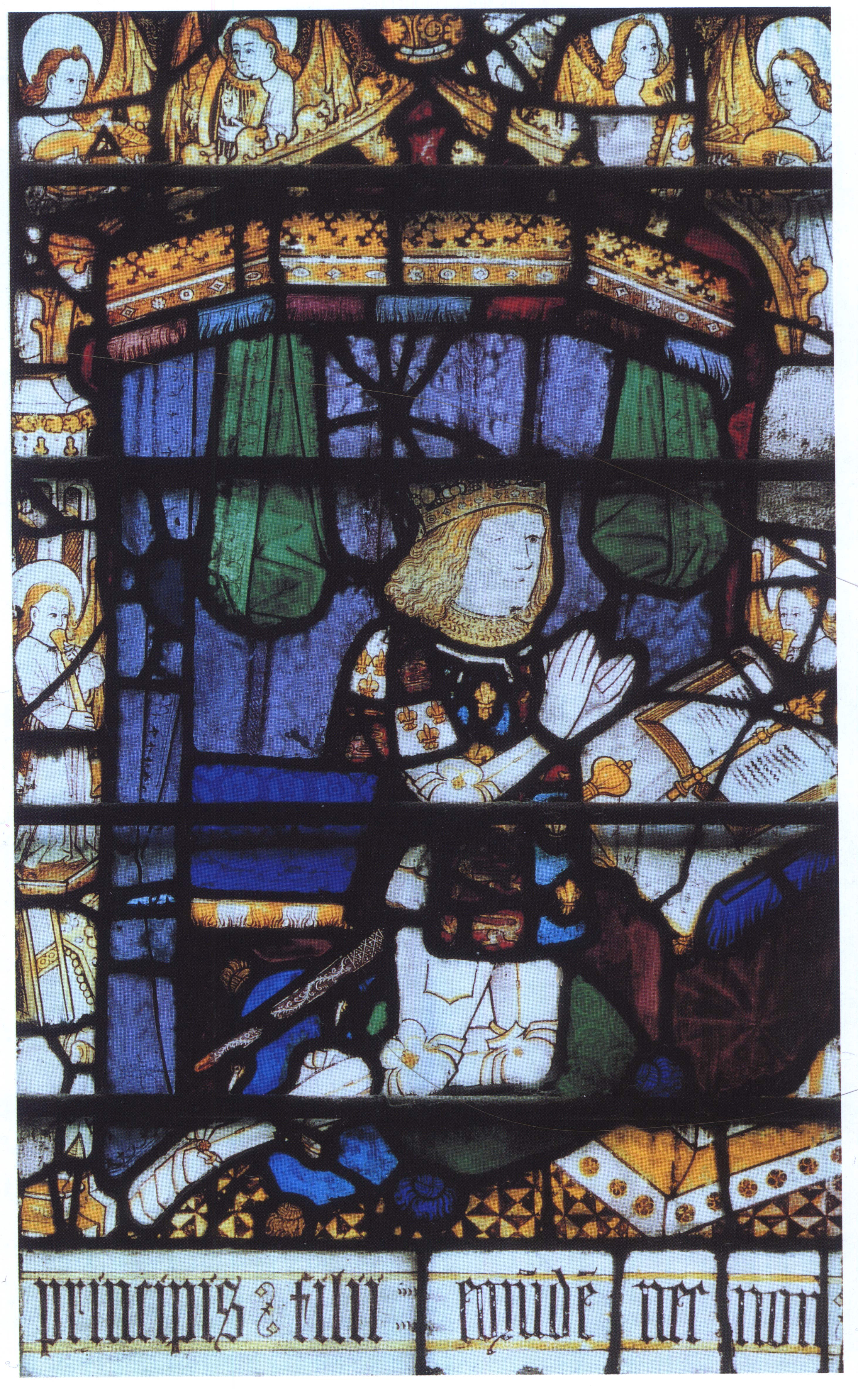 Prince Arthur, stained glass figure in the north transept, magnificat window of the priory church, Great Malvern, Worcestershire